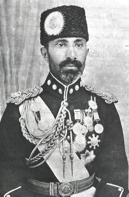 Mohammed Nadir Khan, King of Afganistan (b.1880-d.1933)